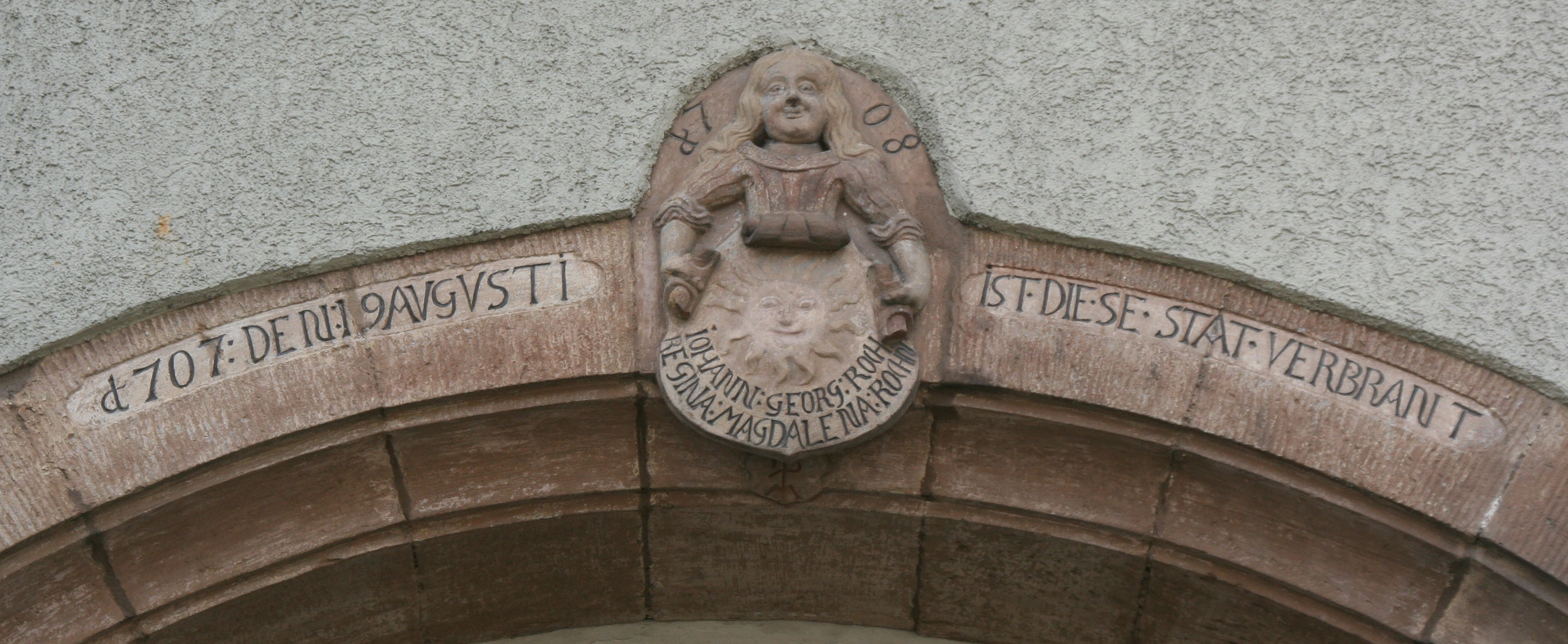 Inscription from the house Marktplatz 3 (former inn Zur Sonne, rebuilt in 1708) that reminds of the fire of 1707 in Weinsberg